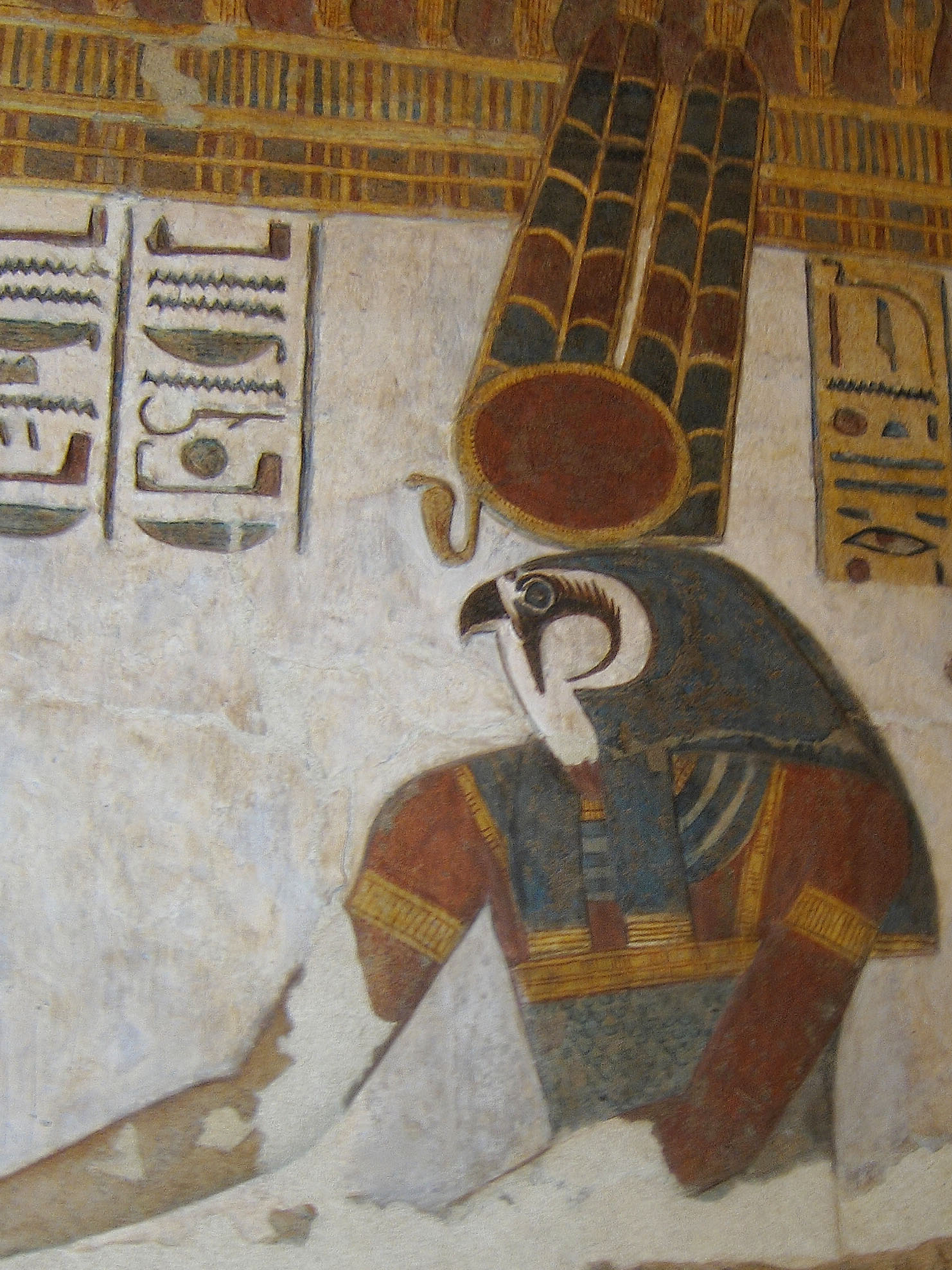 Relief from the Sanctuary of Khonsu Temple. It is a representation of Khonsou although here with the characteristics of Menthu (the sun disk and the two plumes). This specific non typical representation of Khonsou is referred to in this study (p. 190).